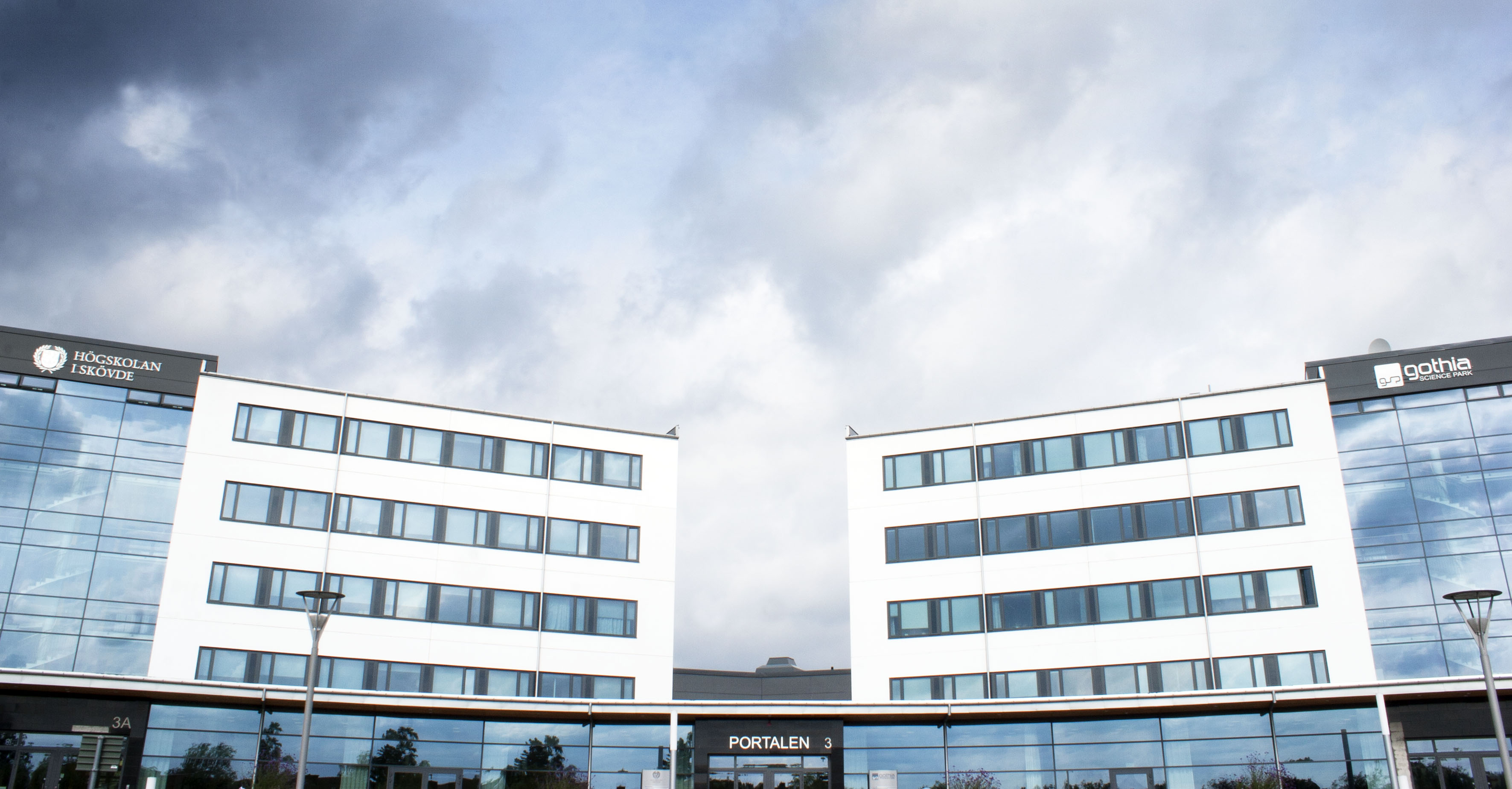 Portalen - "The Portal", building at the University of Skövde